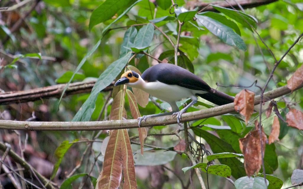 White-necked Rockfowl (Picathartes gymnocephalus) Kambui Hills Forest Reserve, Sierra Leone 29 May 2009